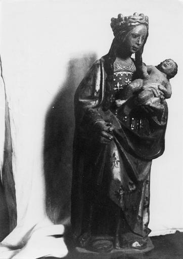 Madonna and child in church of Saint-Maixant (Gironde)